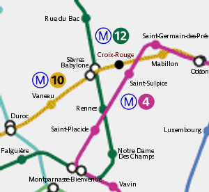 Extract from Image:Paris Metro map.gif, idea from Image:Haxo (Paris Metro).png by User:Superbfc. en: Locations of Croix-Rouge Paris metro ghost station. fr: Localisation de la station fantôme du métro de Paris Croix-Rouge.